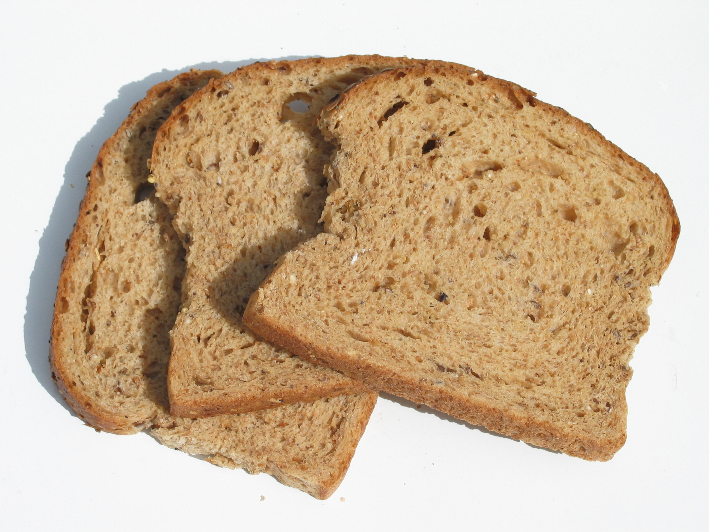 Three slices of stale brown, multigrain bread.